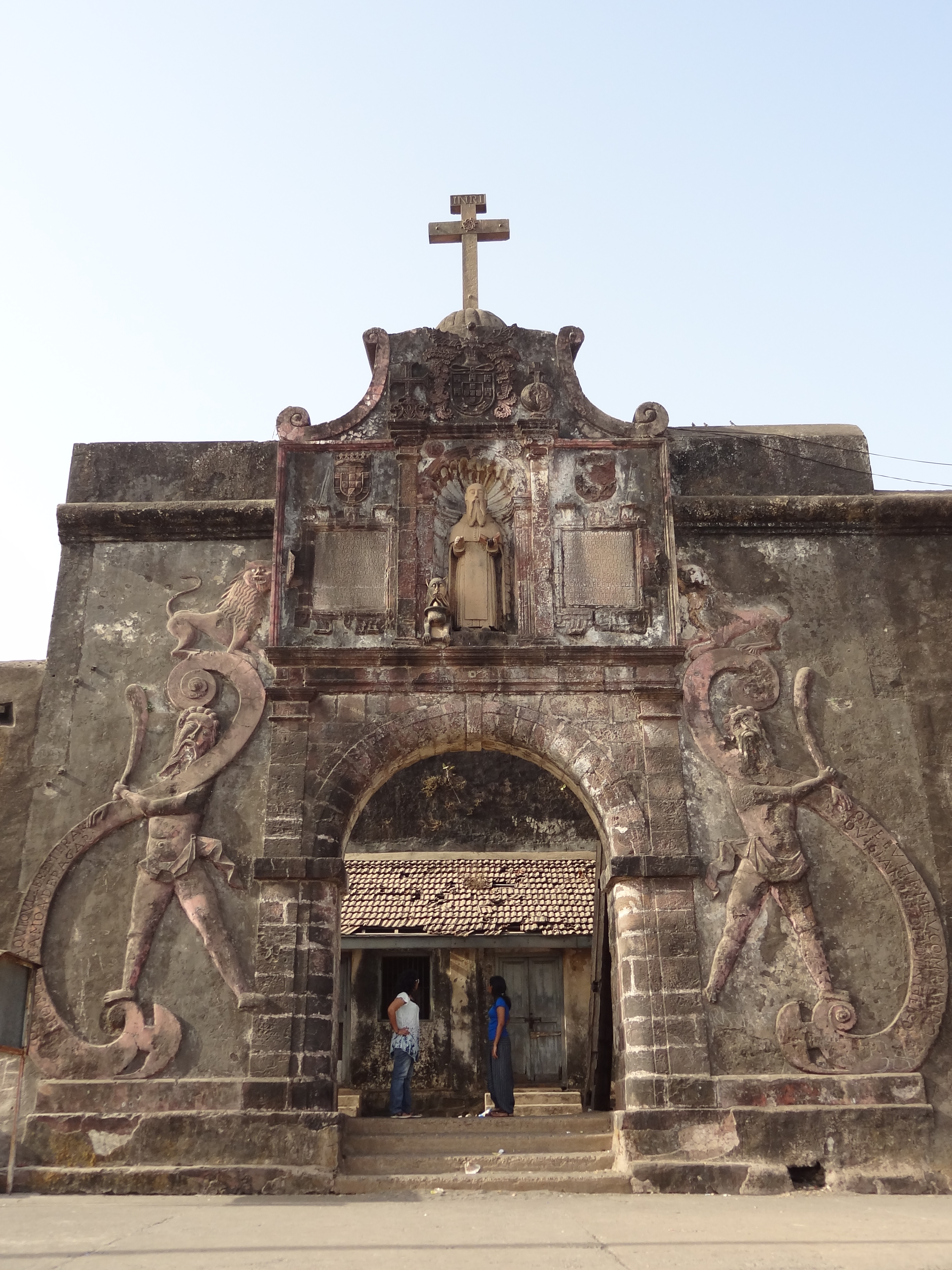 Fort of Nani Daman/Fort of St.Jerome